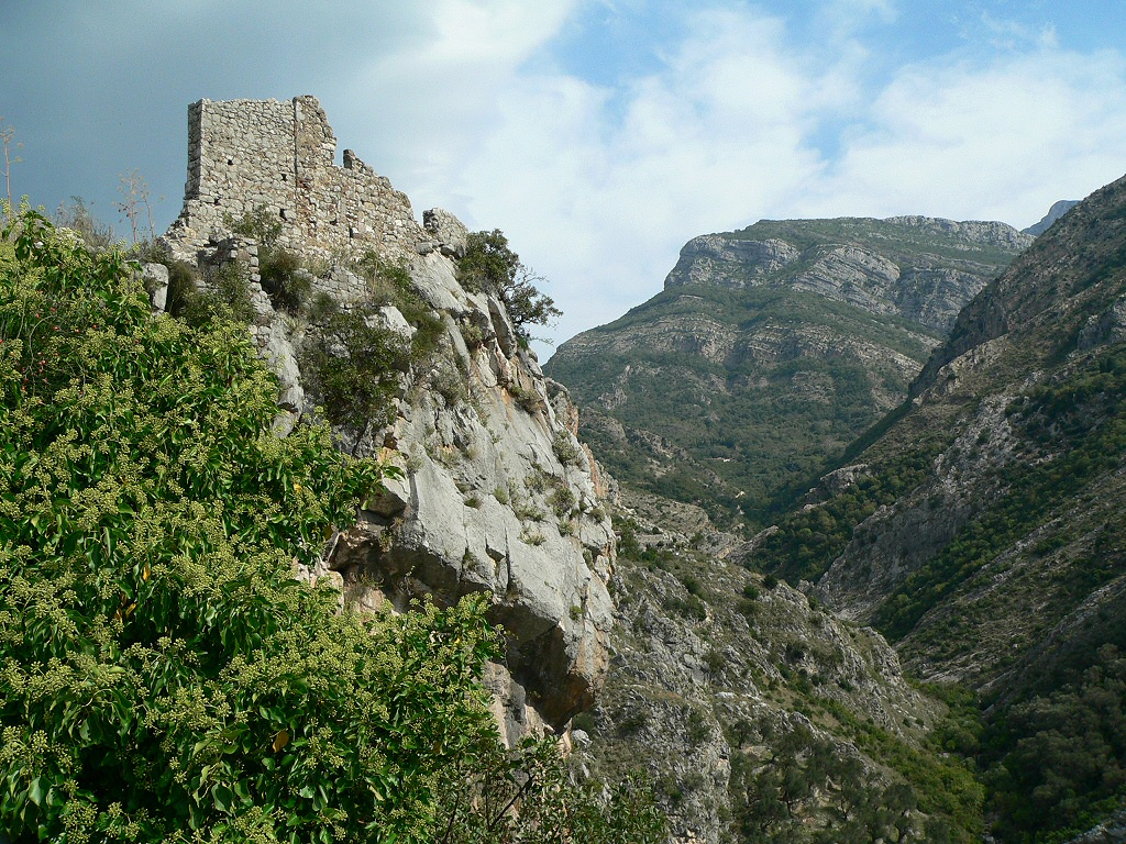 A fragment of the town walls of Stari Bar - currently a phantom town near Bar, Montenegro